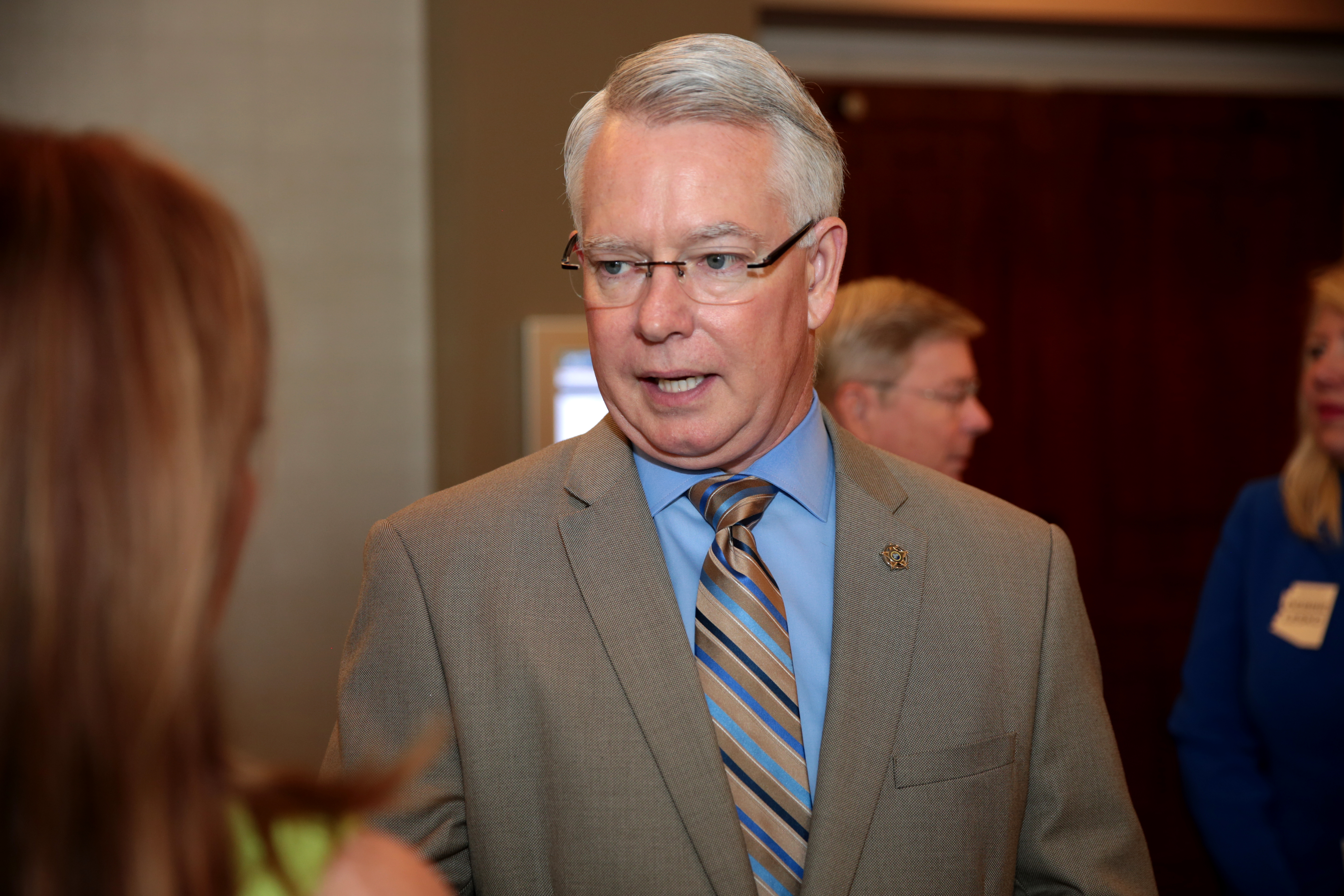 Bill Montgomery speaking at an event in Phoenix, Arizona.